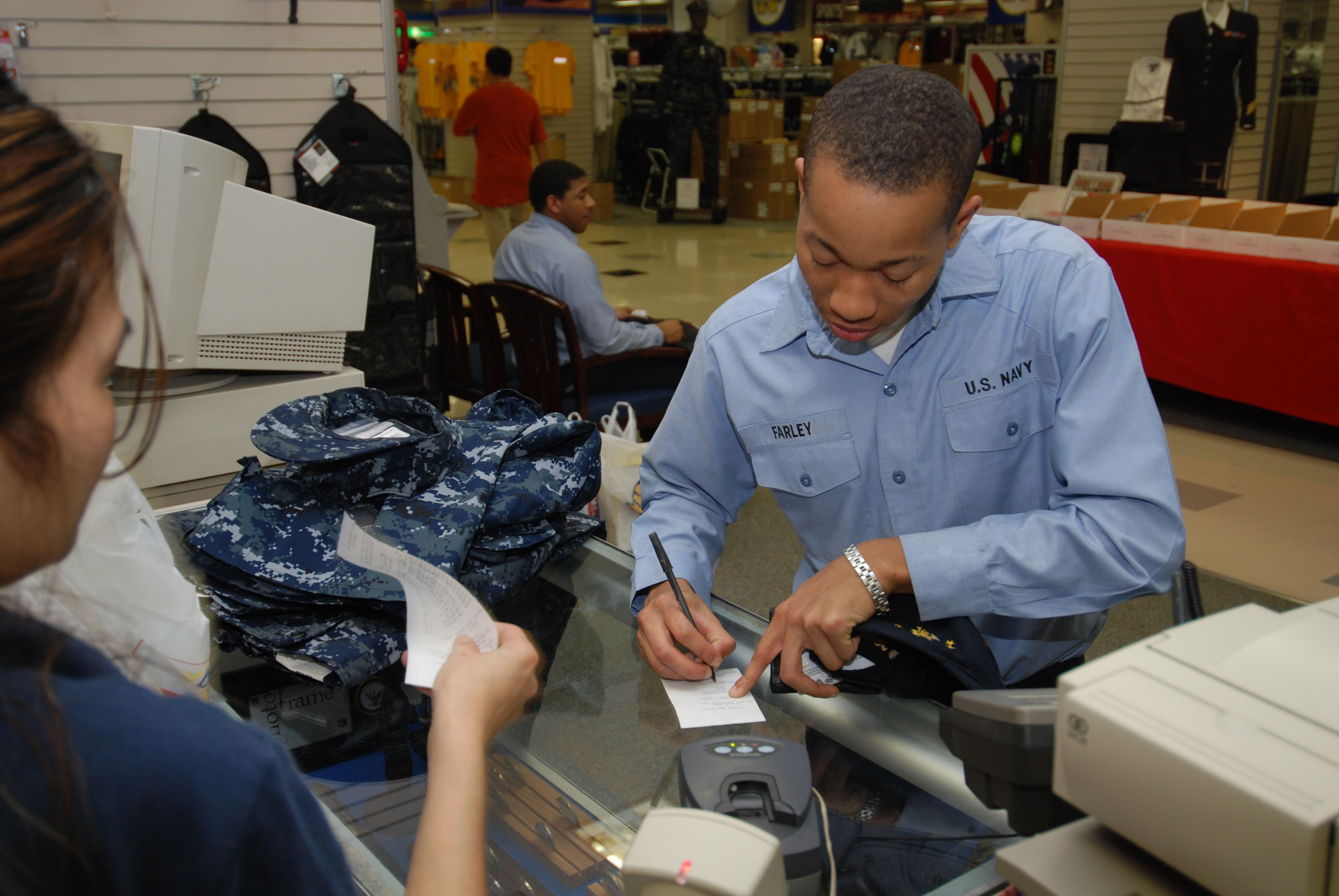 YOKOSUKA, Japan (Feb. 10, 2010) Culinary Specialist Seaman D'Allen Farley, assigned to the guided-missile destroyer USS John S. McCain (DDG 56), purchases the Navy Working Uniform at the Navy Exchange uniform shop at Fleet Activities Yokosuka Feb. 10, the first day the uniform was available in Navy Region Japan. (U.S. Navy photo by Mass Communication Specialist 3rd Class Dominique Pineiro/Released)